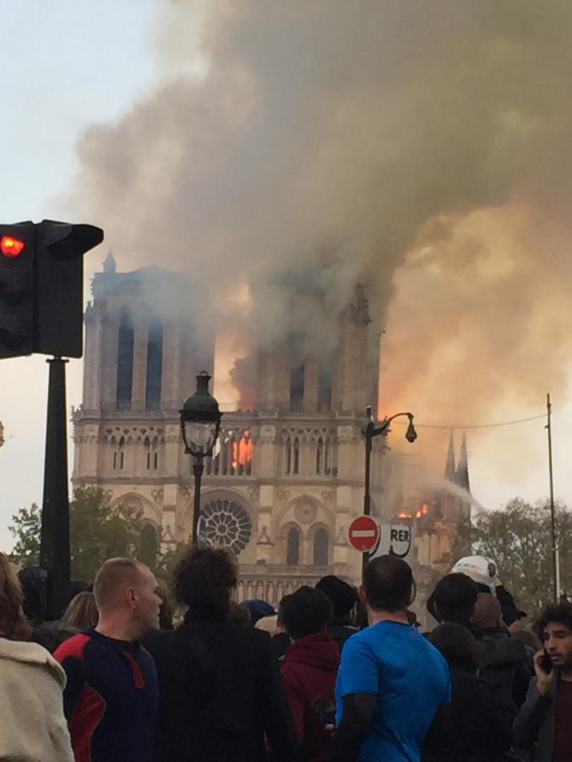 The fire, seen from place saint michel